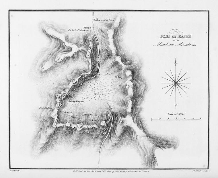 Pass of Hairy in the Mandara Mountains. From arrative of travels and discoveries in Northern and Central Africa, in the years 1822, 1823, and 1824. Vol I & II. (published 1826).